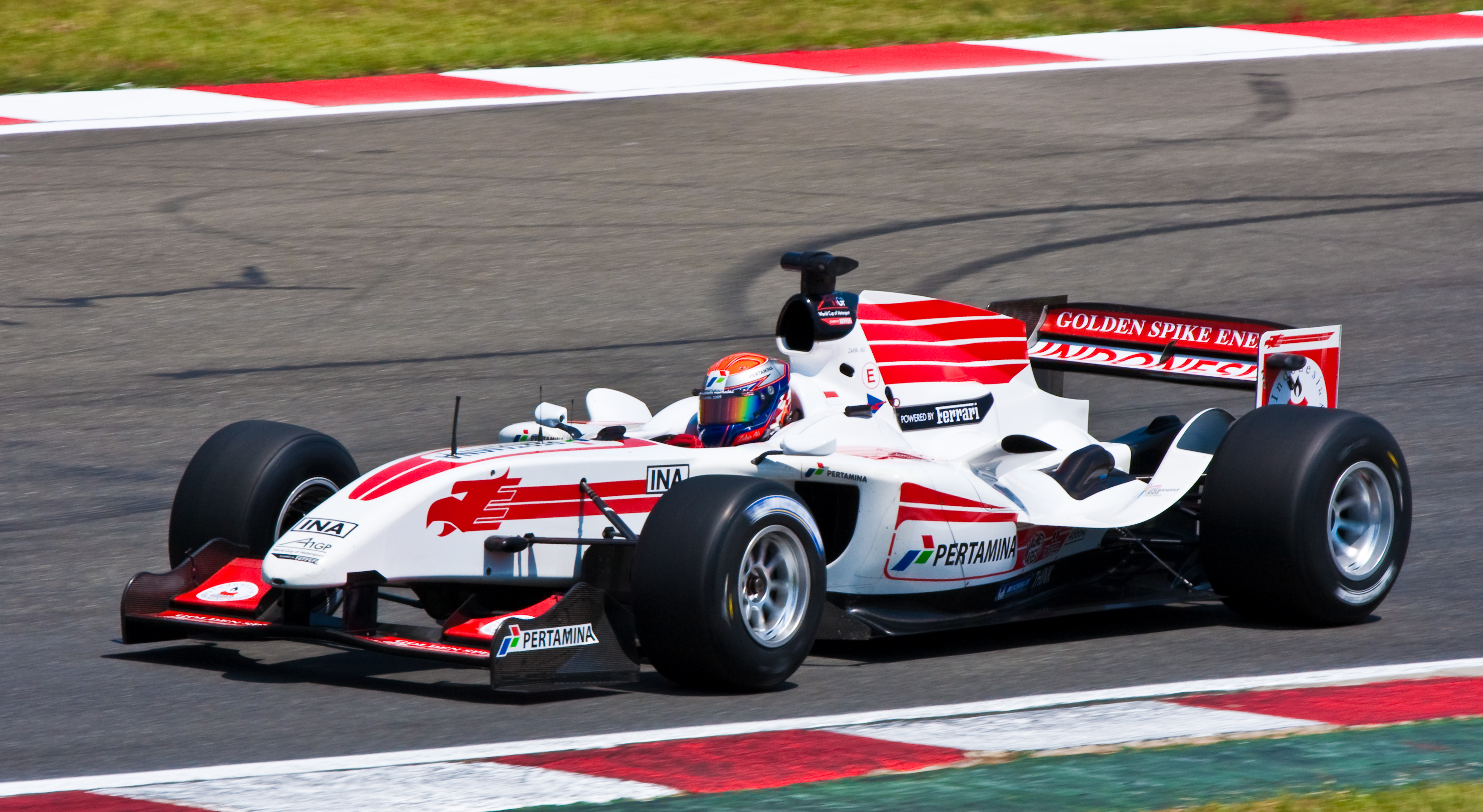 Team Indonesia @ A1 Grand Prix Kyalami South Africa 2009